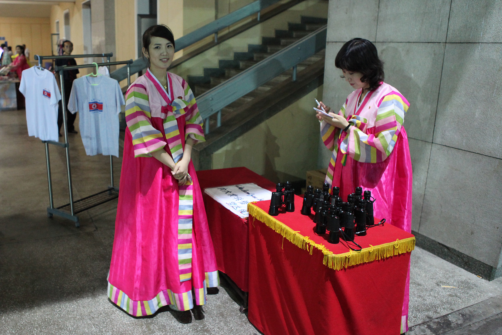 Just before the Arirang show.